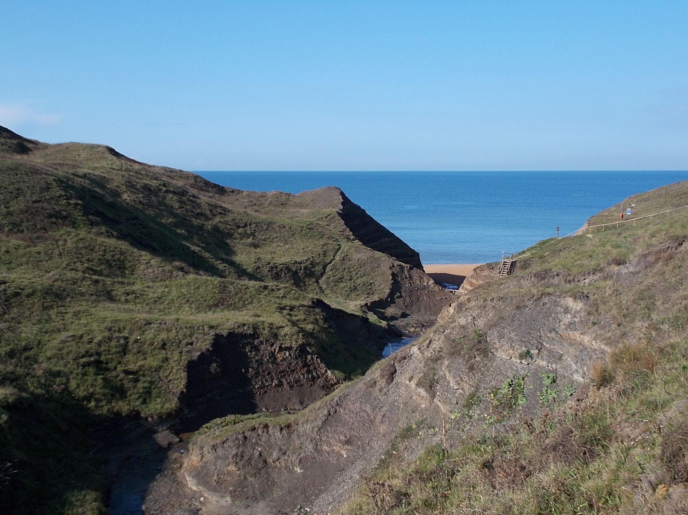 Shepherd's Chine, Isle of Wight, UK